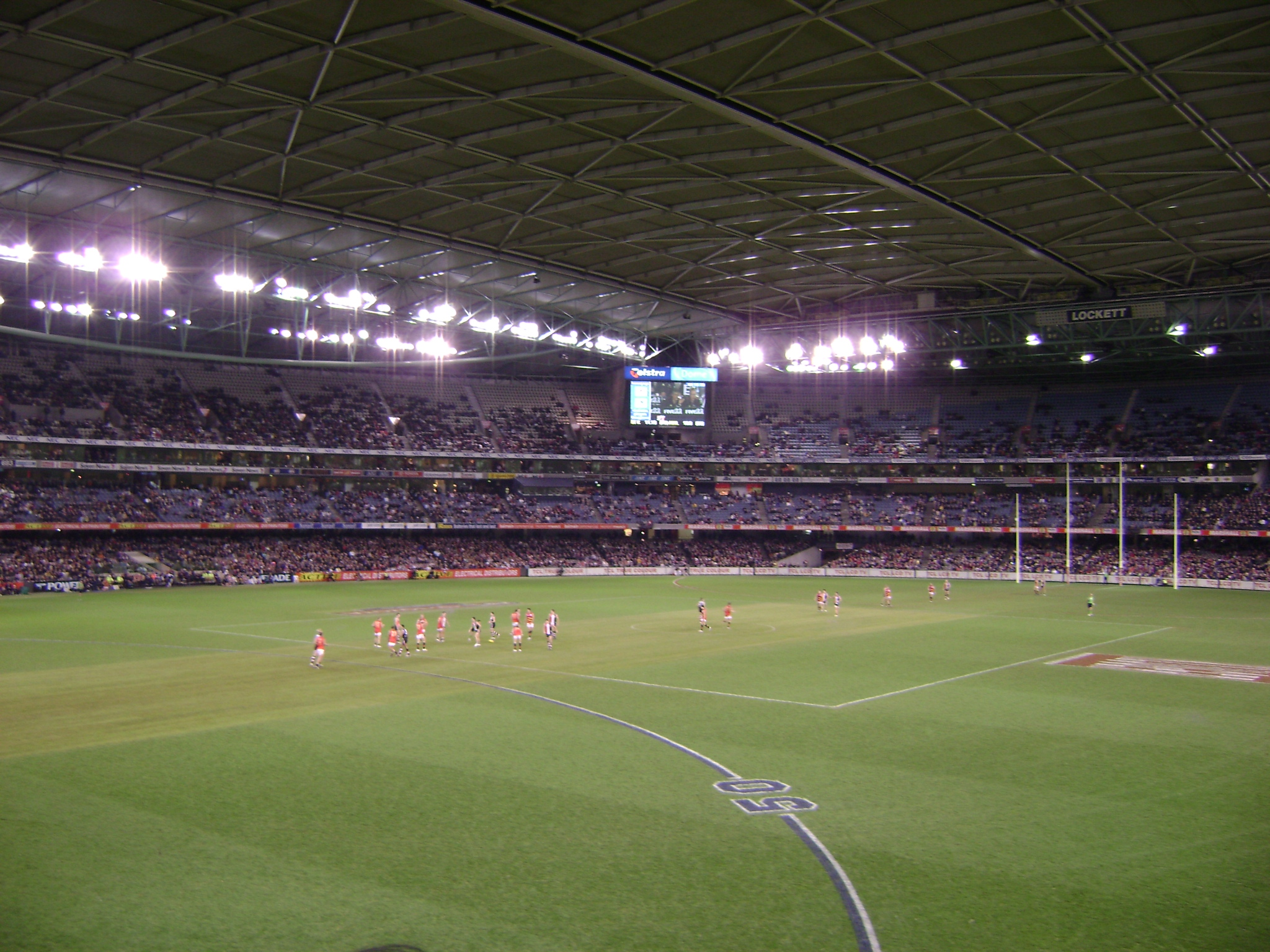 The Telstra Dome viewed from the south eastern pocket of the ground during a St Kilda and Adelaide AFL match.